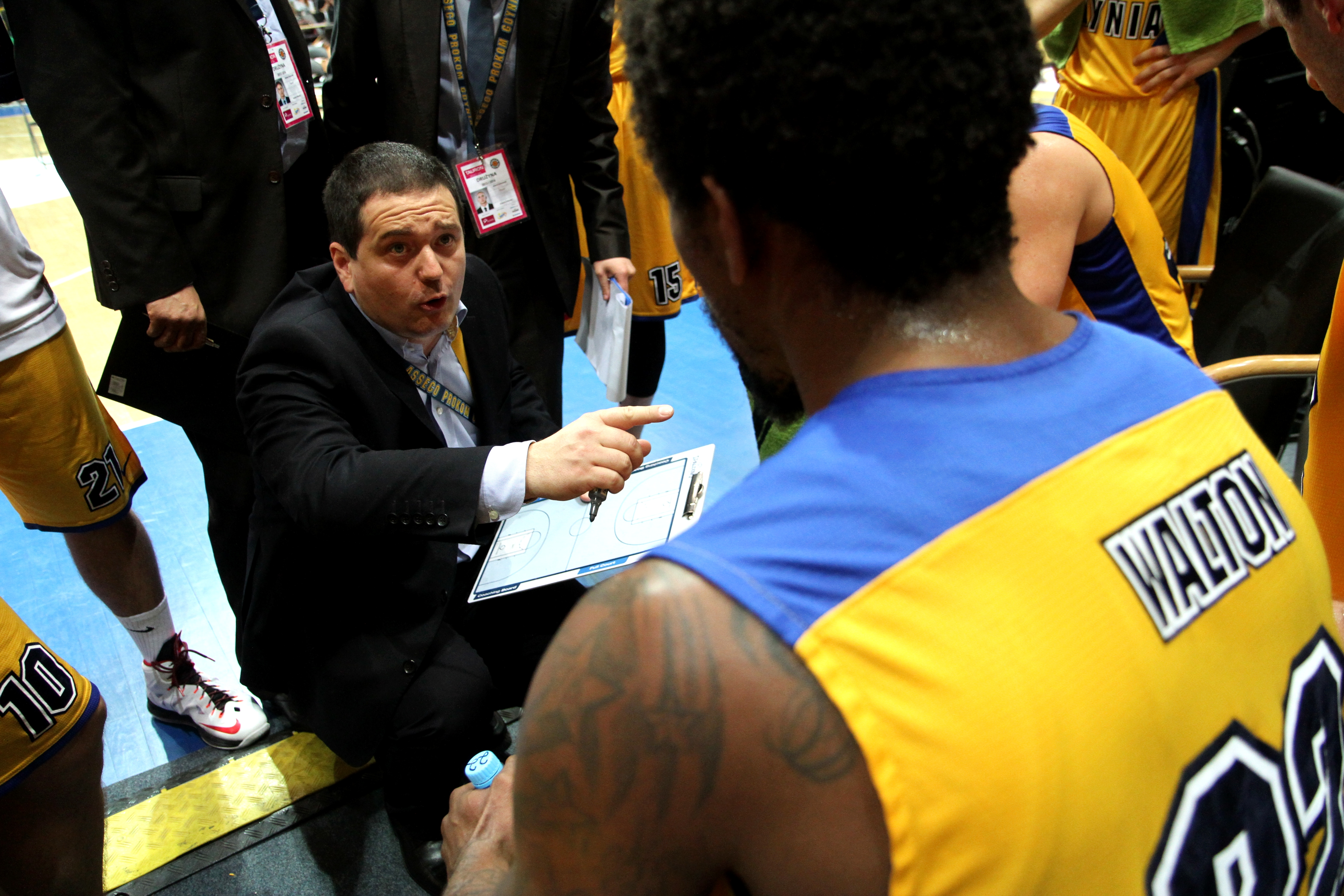 David Dedek Asseco Gdynia